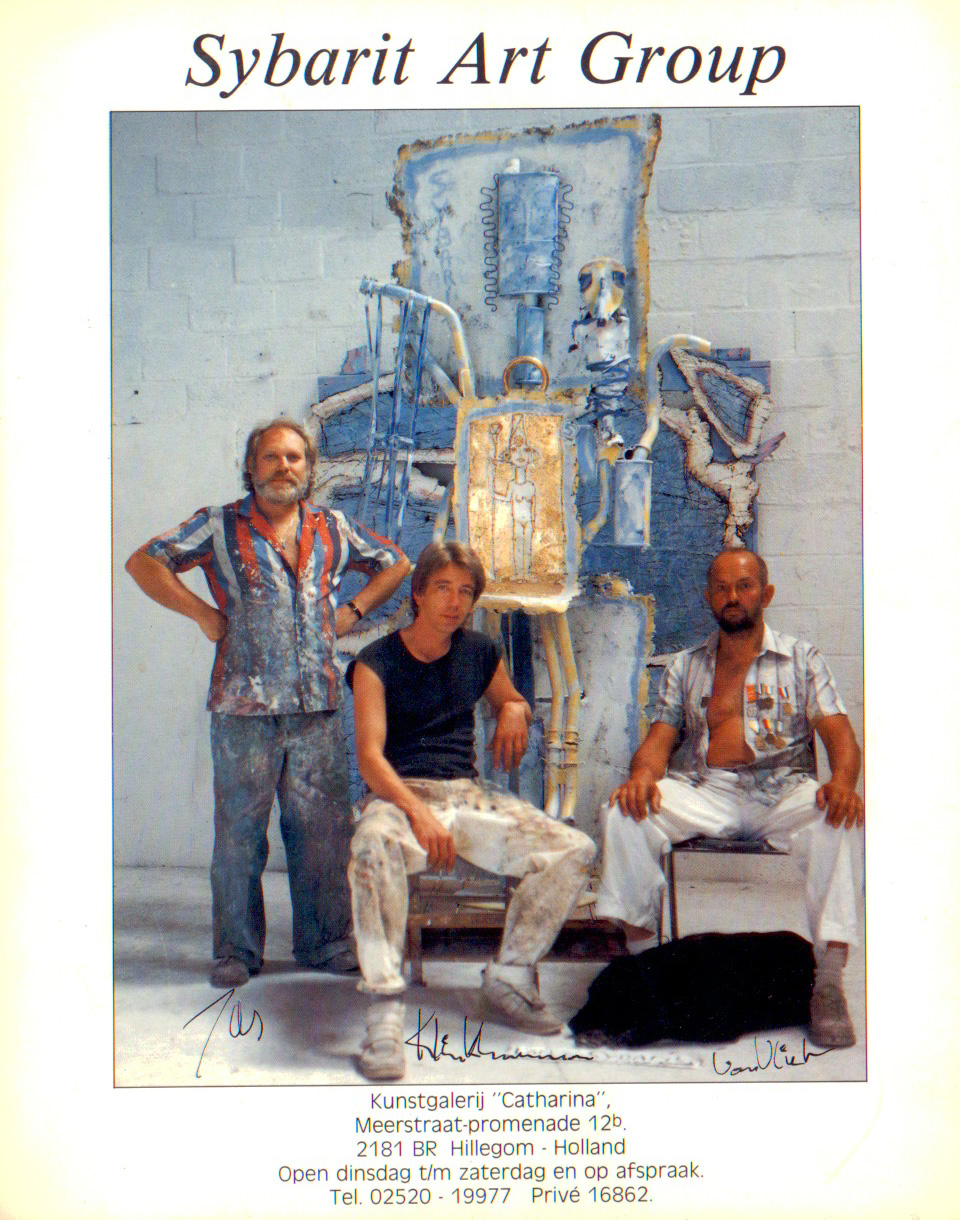 JAS, Klinkhamer en Van Vliet